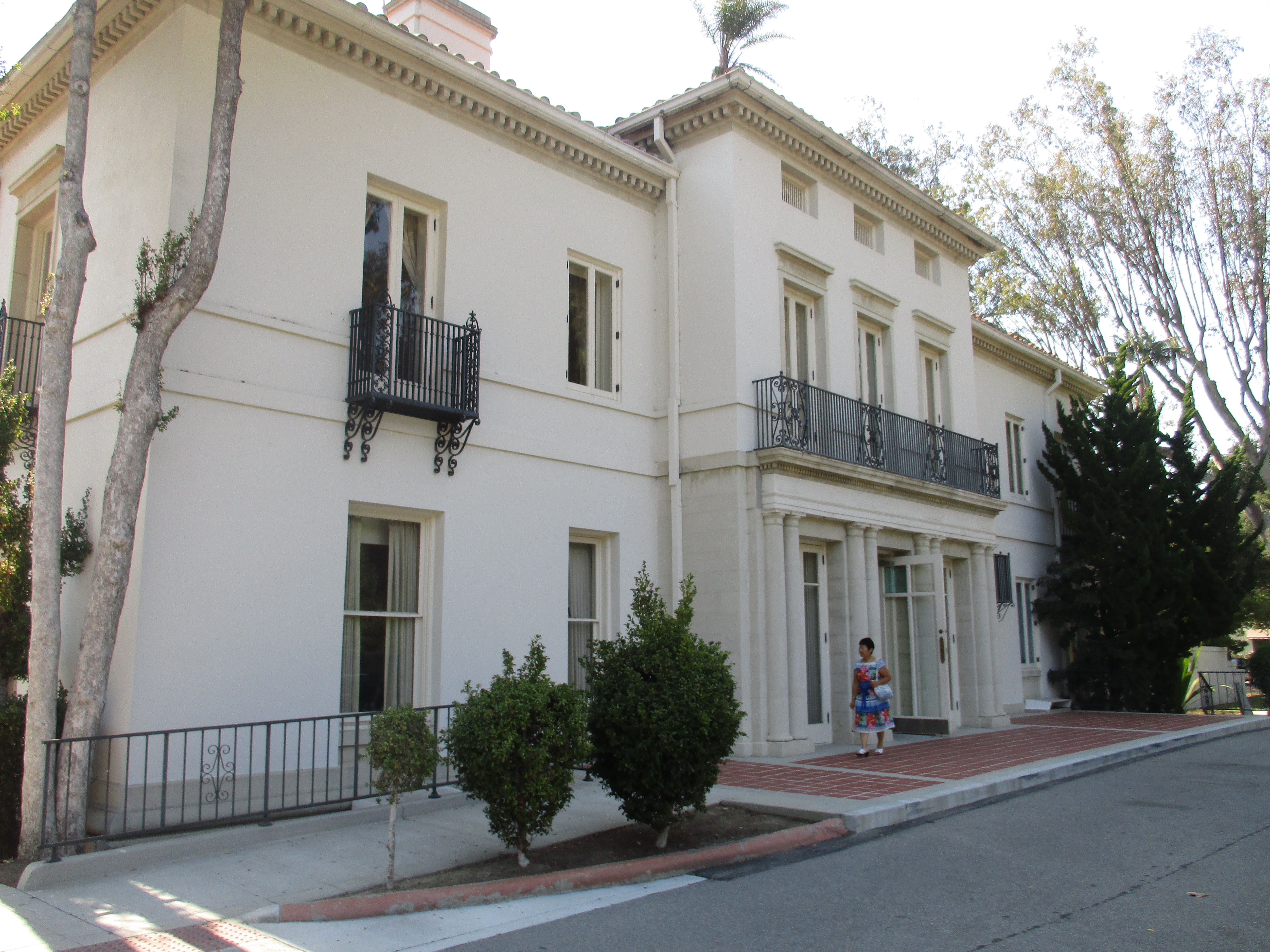 View from SE of Front of Bard Mansion at Berylwood